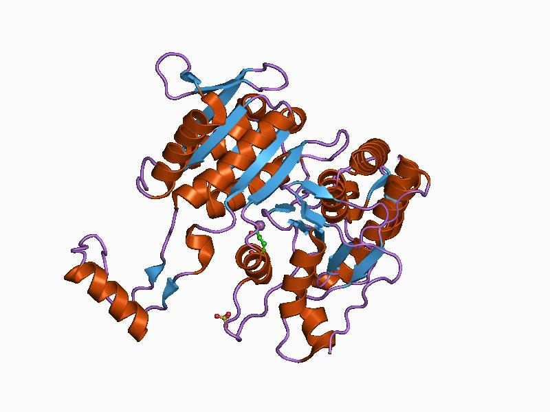 Cartoon representation of the molecular structure of protein registered with 1cw4 code.